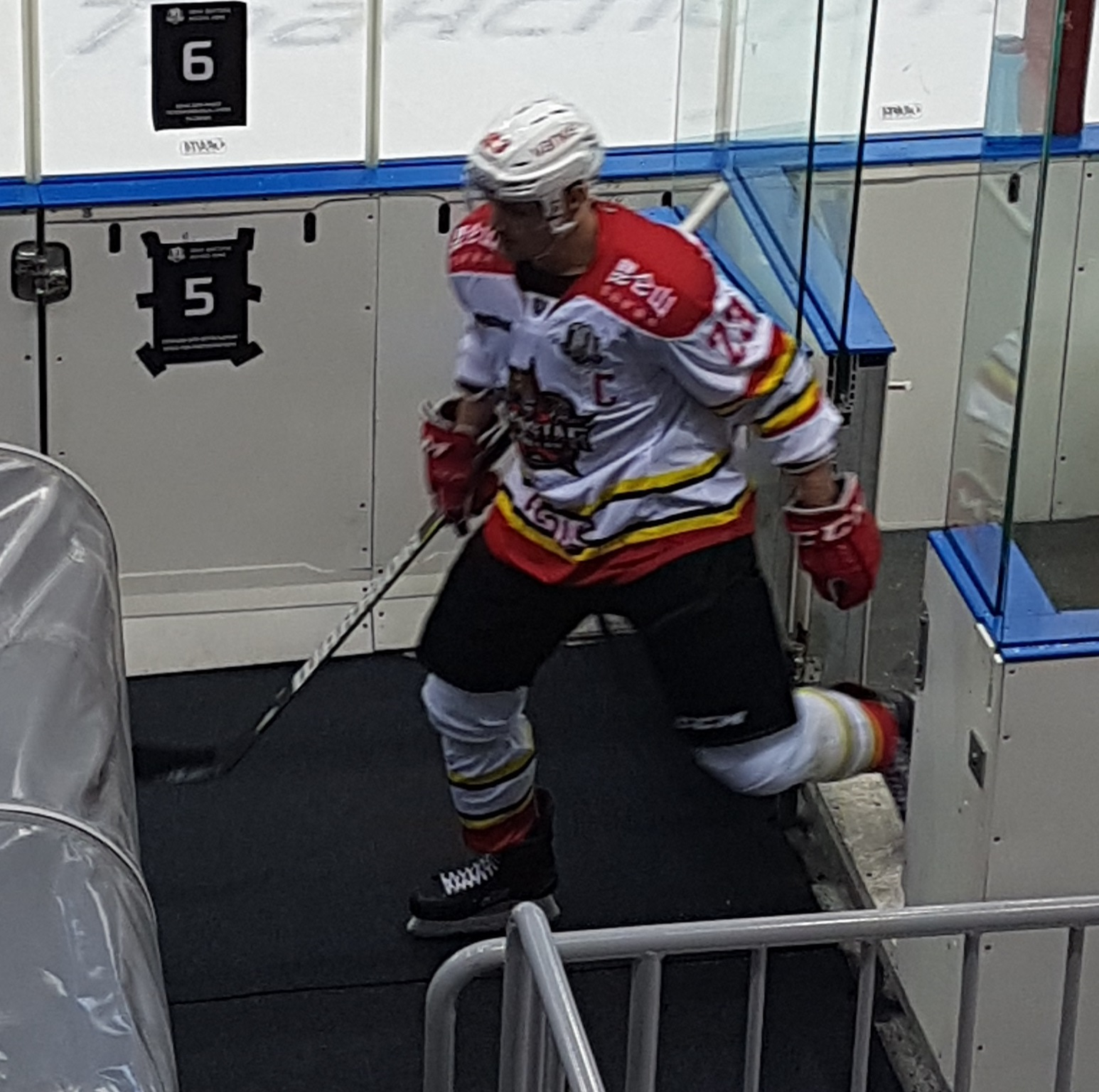 Alexei Ponikarovsky of Kunlun Red Star prior to a game on December 29, 2017